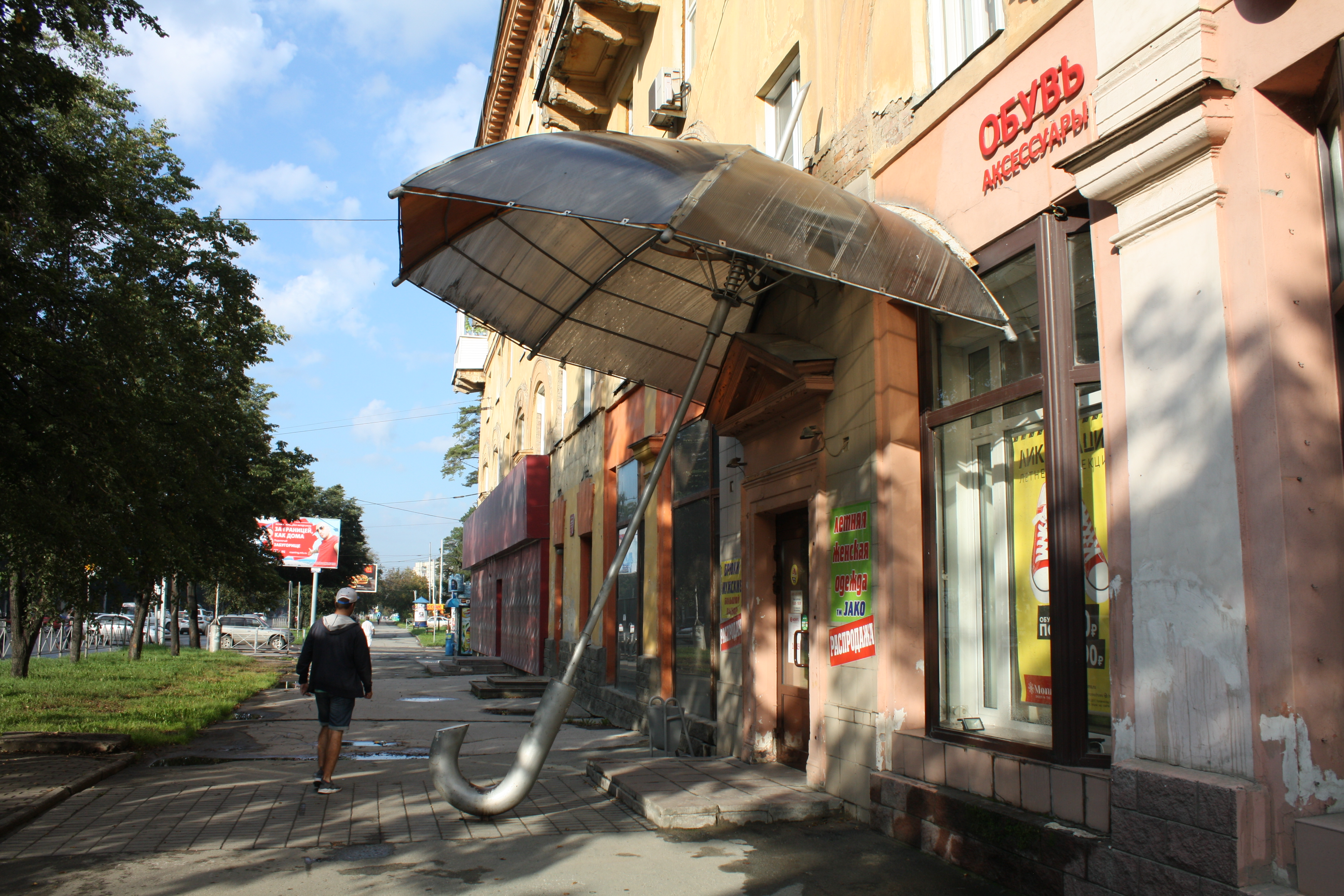 Bohdan Khmelnytsky Street, Kalininsky City District, Novosibirsk.